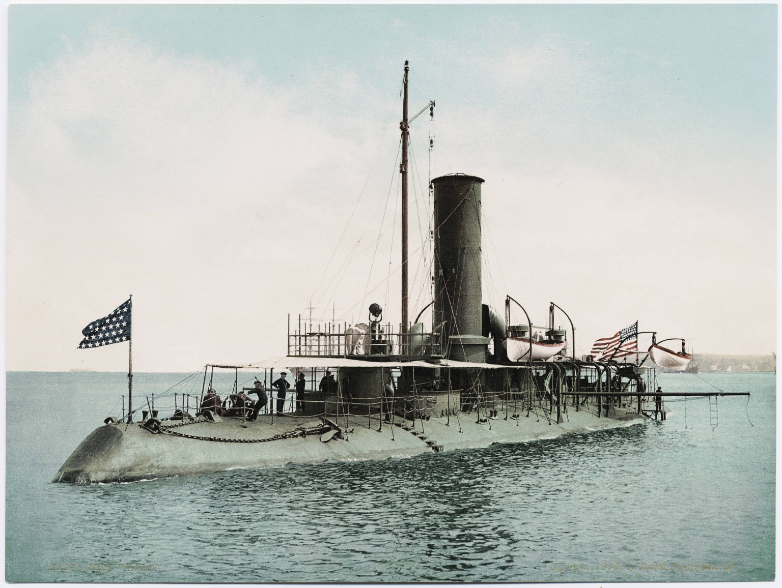 A photochrom postcard published by the Detroit Photographic Company.